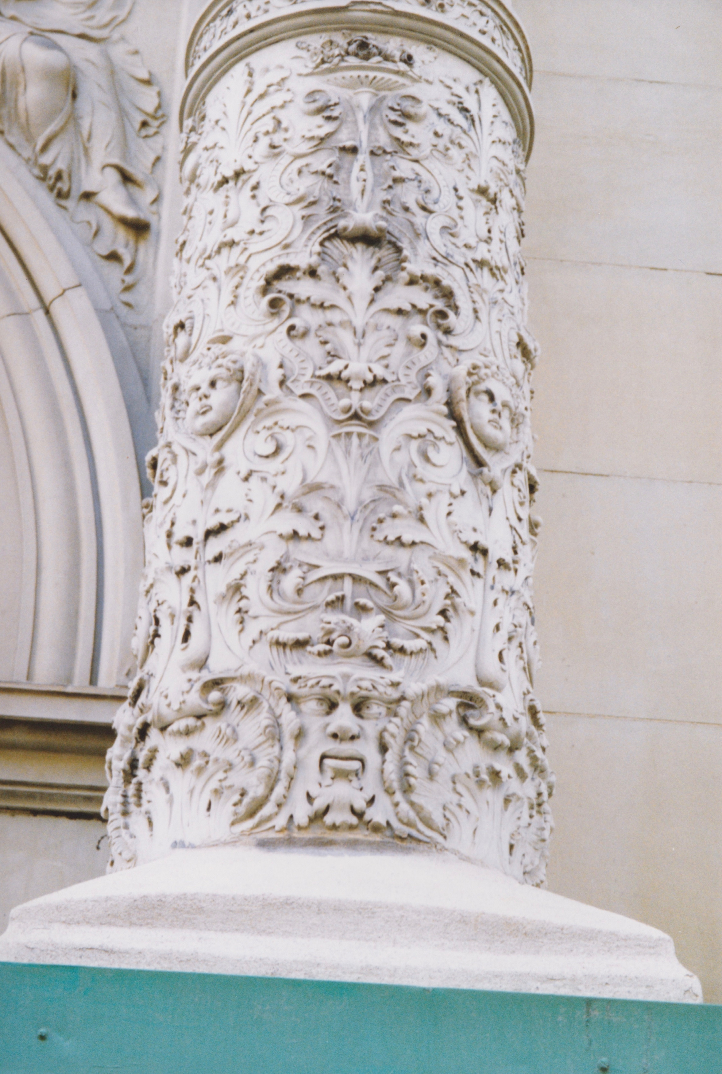 Architectural details in Montreal, photographed August 1992